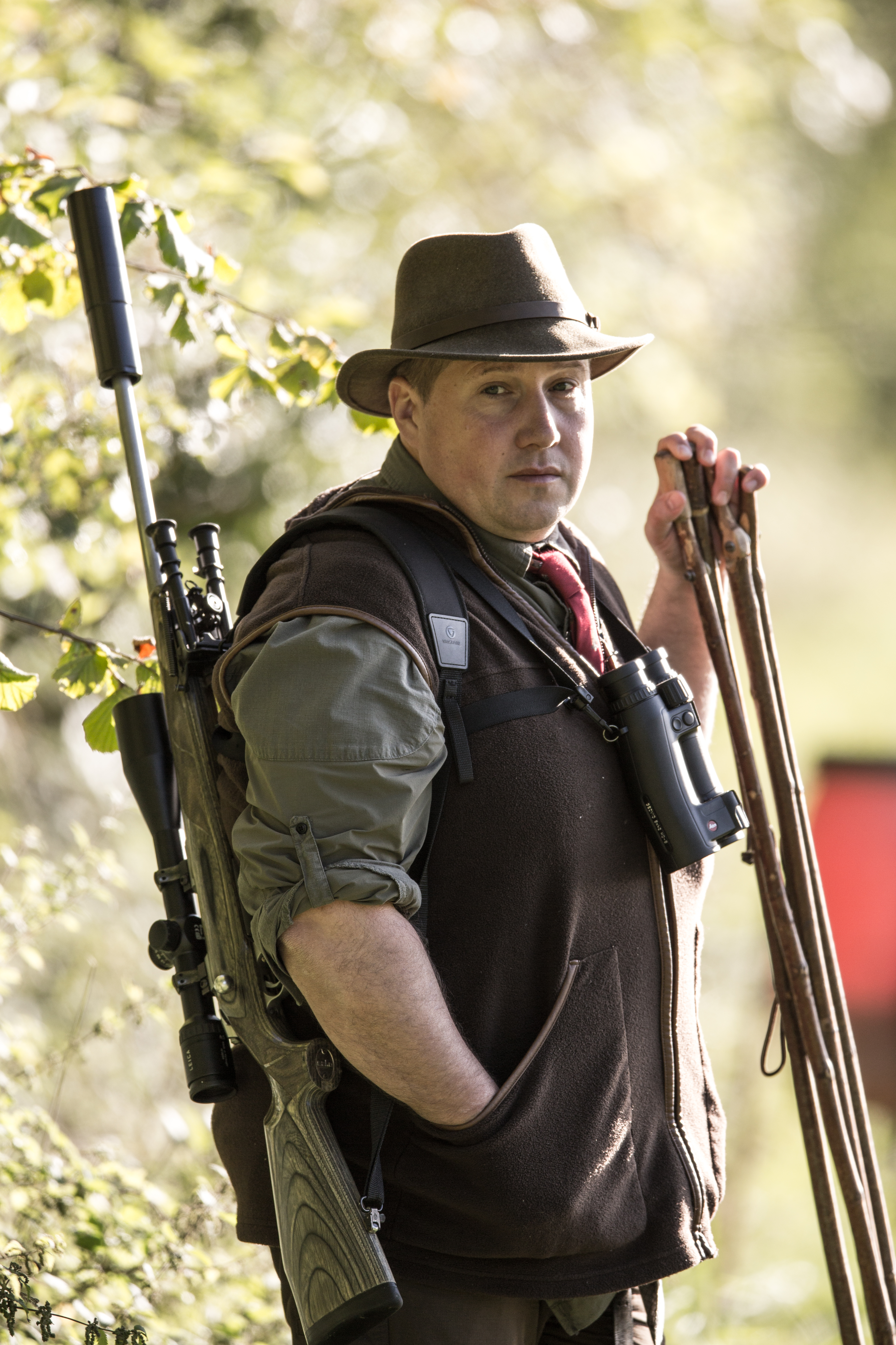 Hampshire Macnab: roe, rod and redleg, with Roy Lupton